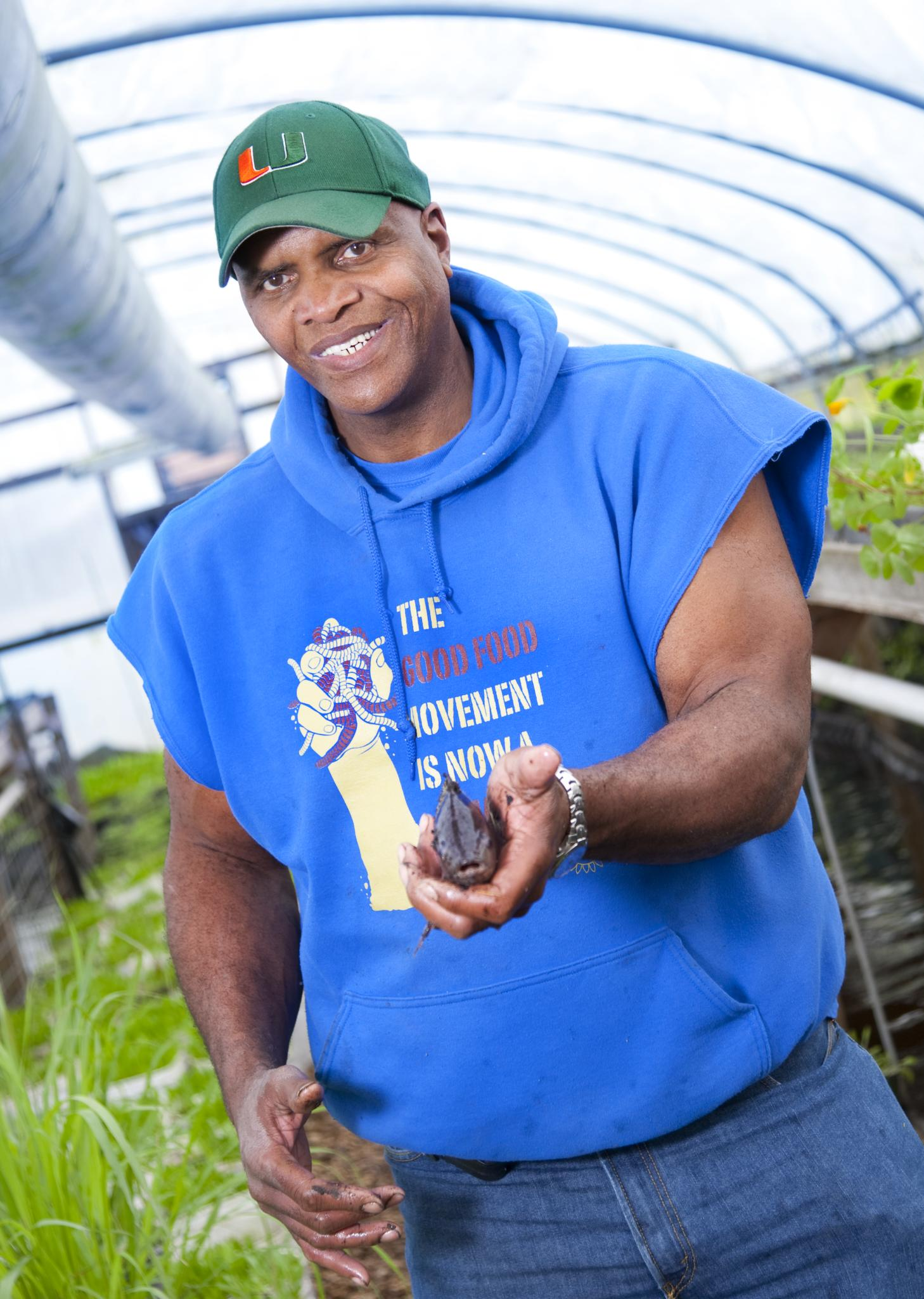 Photo of Will Allen of Growing Power taken in greenhouse #7. It is a community gardening coop, where he teaches inner city residents to grow their own food and to use coop farms. In the last year and a half, Allen has added aquaculture to his greenhouses, in a system the that WATER Institute helped to hone: the plants purify the water and where the fish are raised. Photo by Pete Amland (UWM Photographic Services)